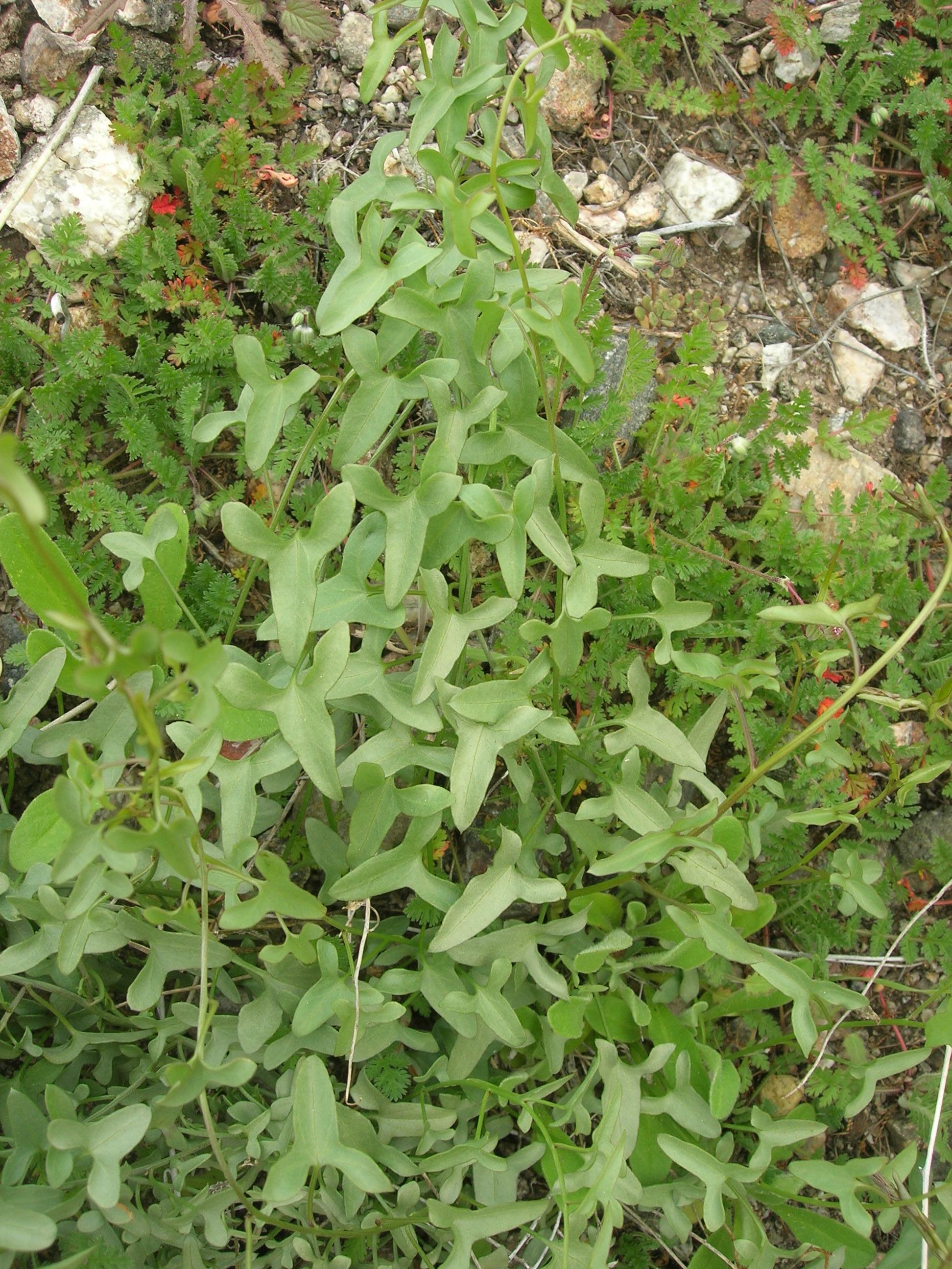 Calystegia peirsonii (Peirson's morning-glory) – CNPS List 4.2; Texas Canyon, Los Angeles County, California